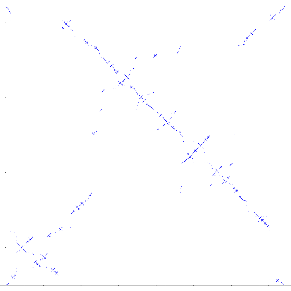 A large (n=1487336) separable permutation.This file was derived from: Large separable permutation.png